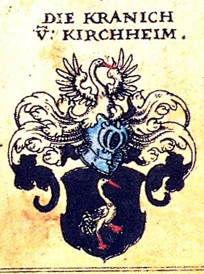 Wappen der pfälzischen Adelsfamilie Kranich von Kirchheim